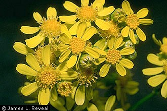 Senecio ampullaceus or Texas ragwort by